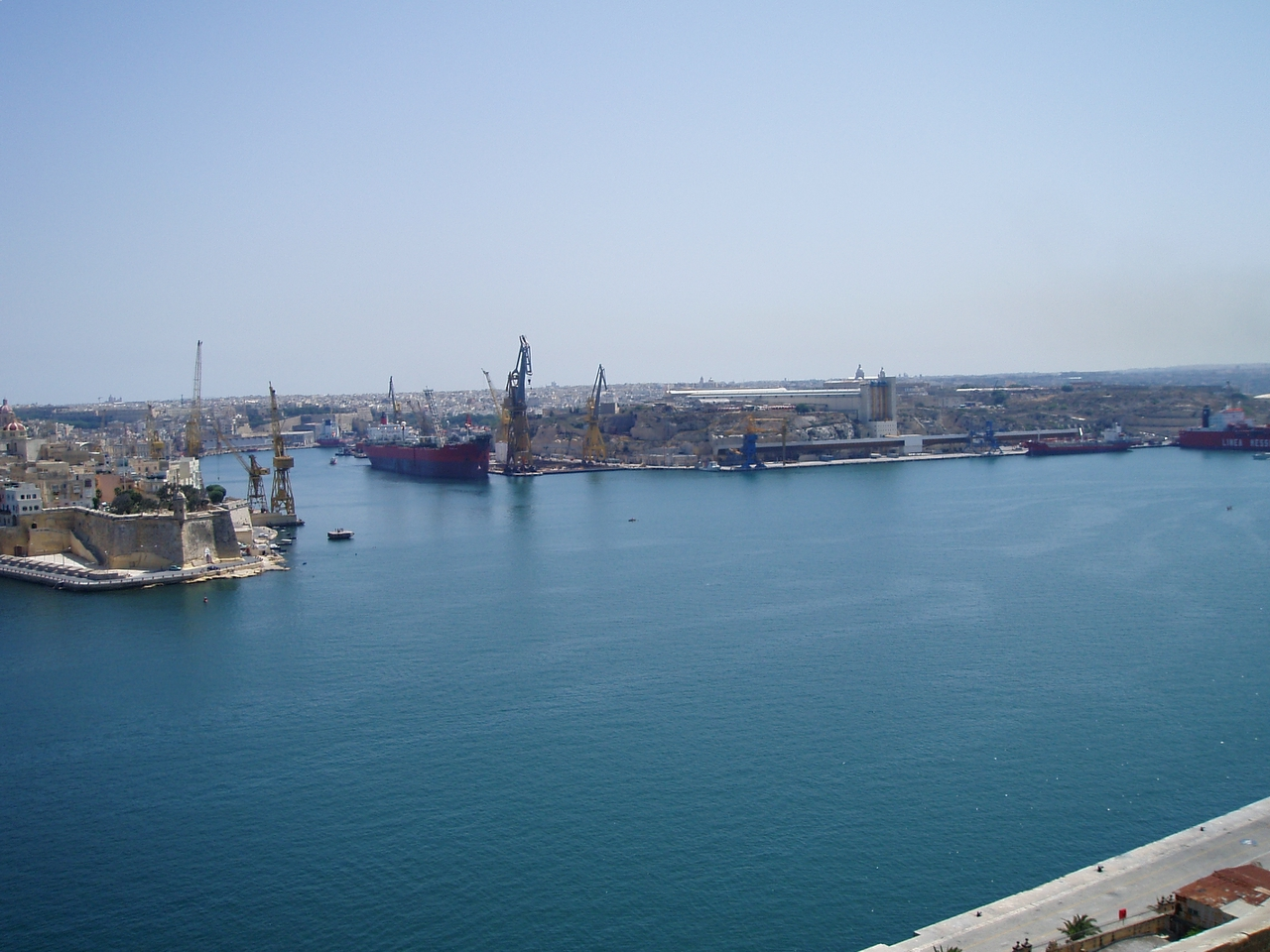 Senglea and Cospicua and Grand Harbour from Upper Barakka Gardens, Valletta